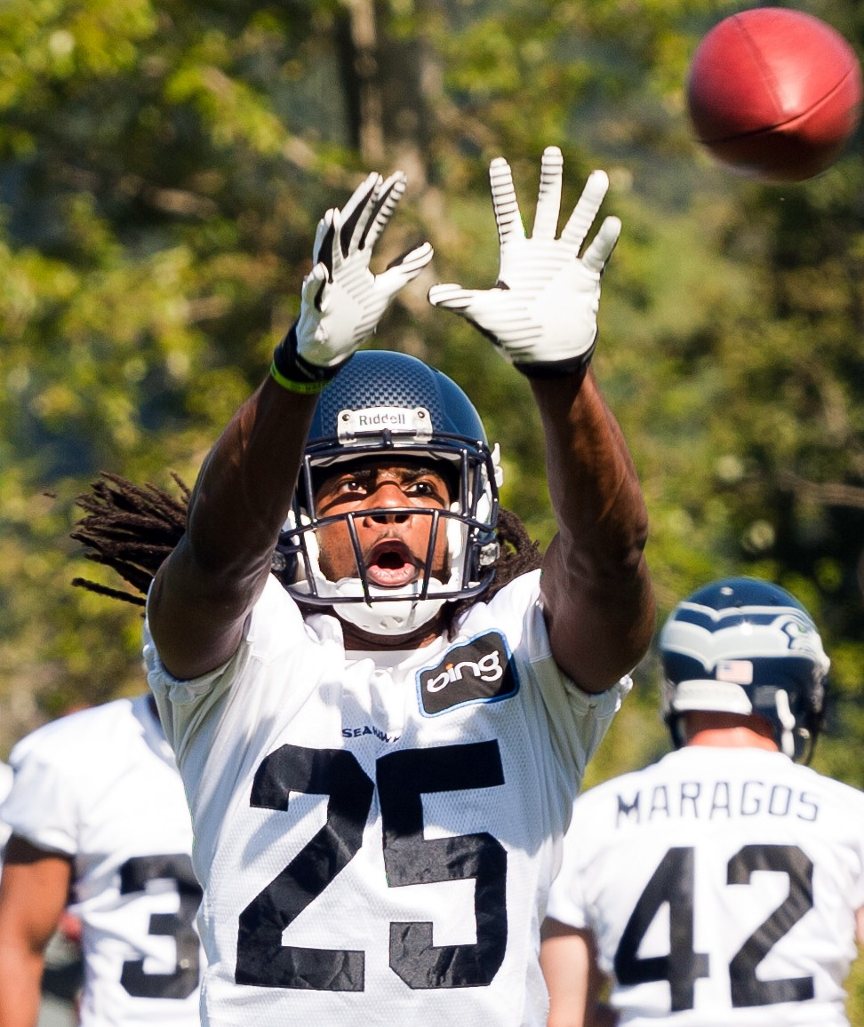 Richard Sherman during 2013 Seattle Seahawks training camp.